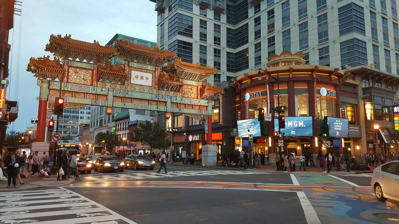 Washington DC Chinatown (Thanks to E's lens!)